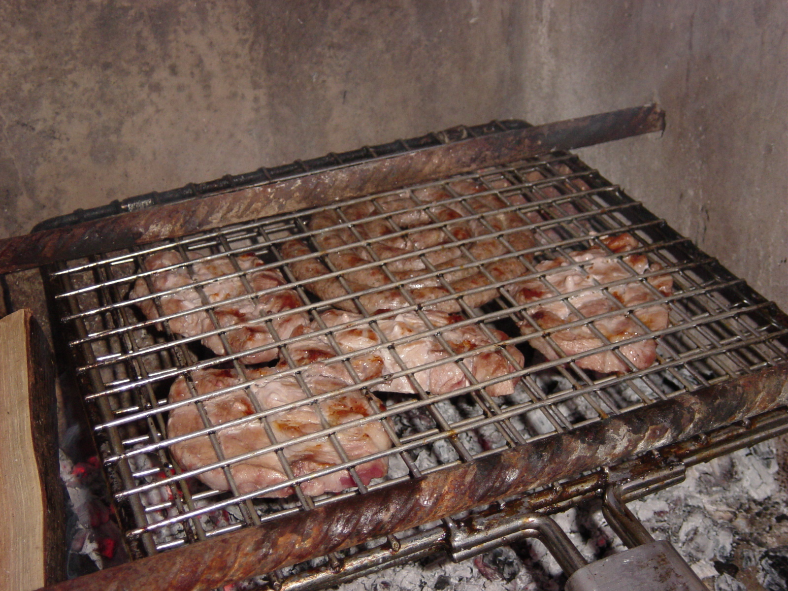 Own work photograph